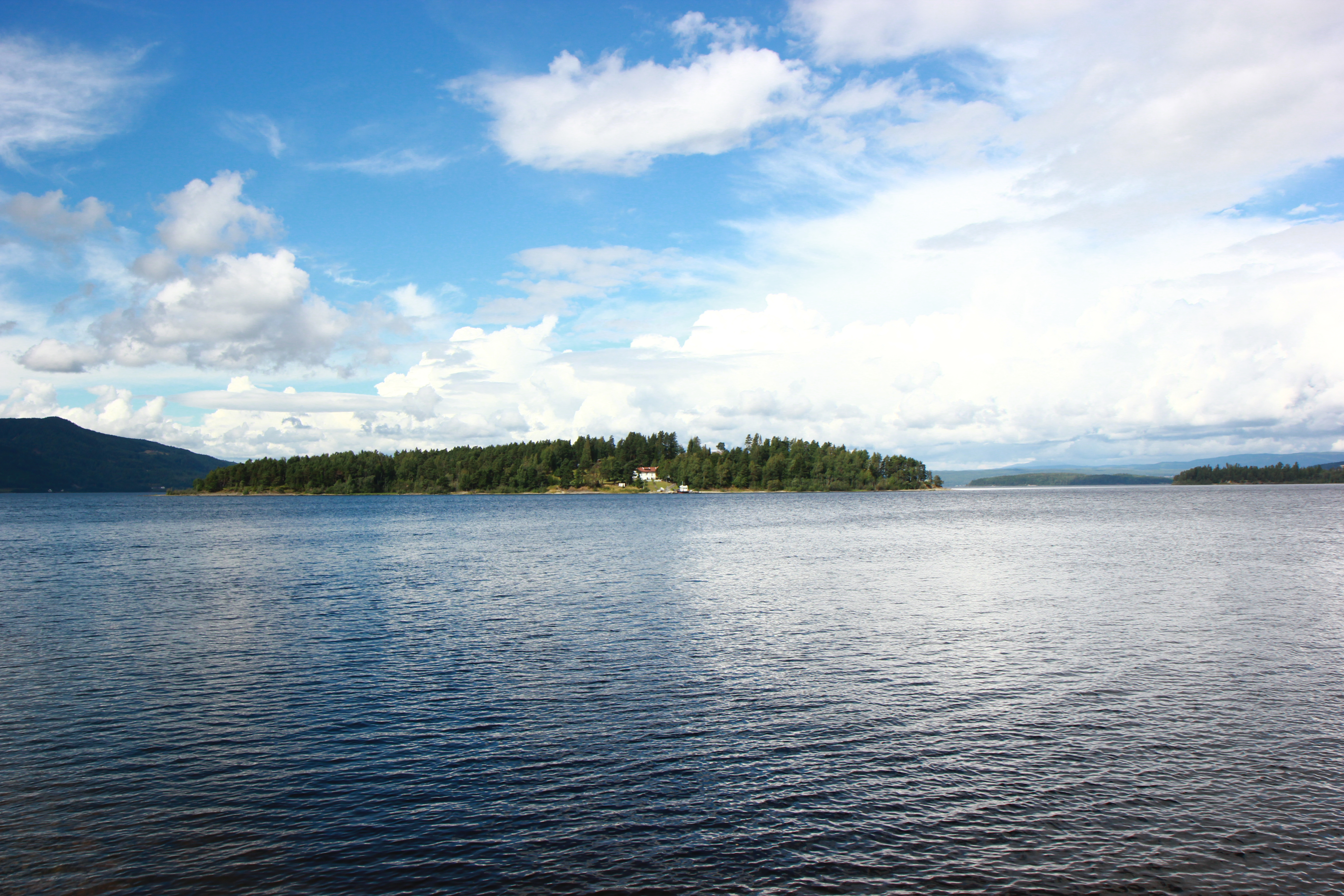 Utøya island in Tyrifjorden Norway